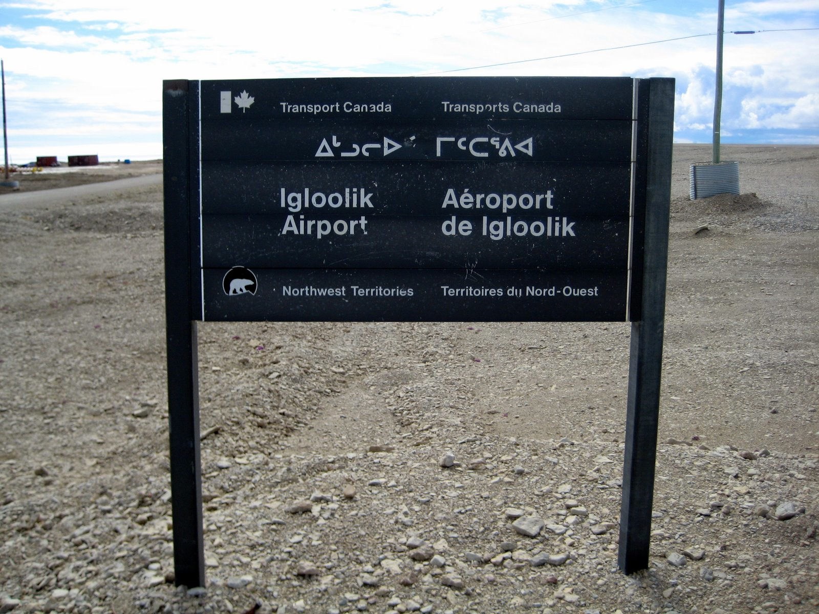 Igloolik Airport's current sign. Labeled as an airport of Northwest Territories as sign predates creation of Nunavut in 1999.